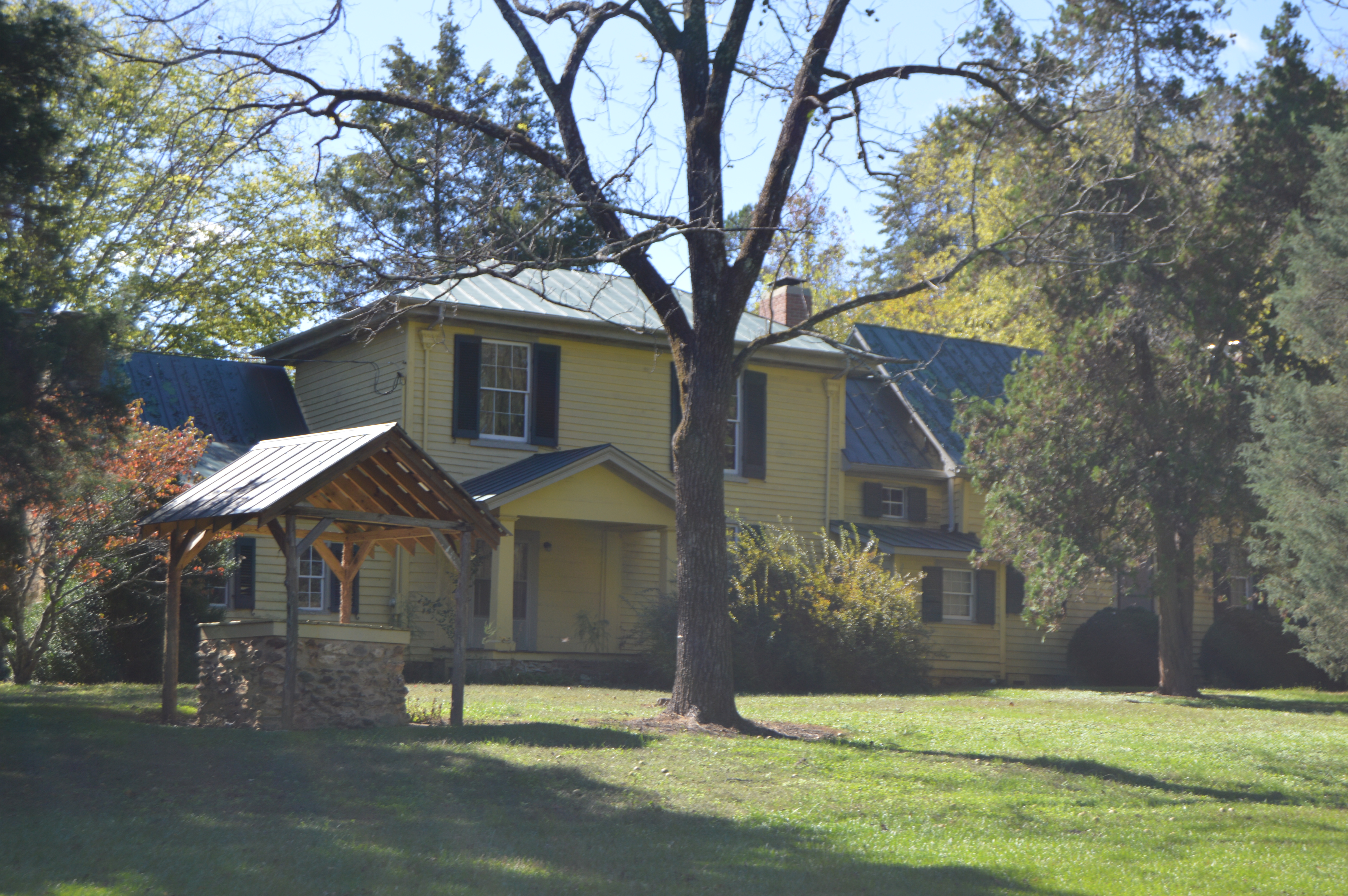 Front of the Holloway-Walker Dollarhite House, located on Jones Paylor Road north of Roxboro in Person County, North Carolina, United States. The house is listed on the National Register of Historic Places.